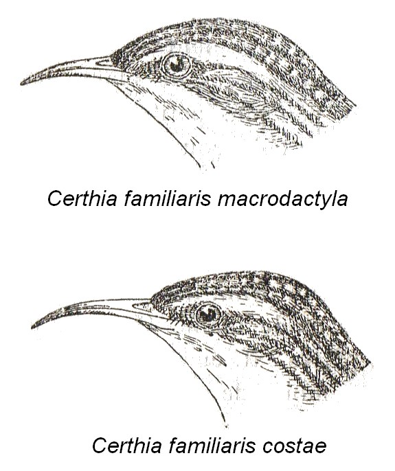 Certhia familiaris macrodactyla Certhia familiaris costae